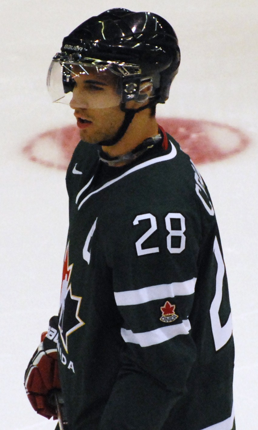 Patrice Cormier during a game against Sweden prior to the 2010 World Junior Championships.